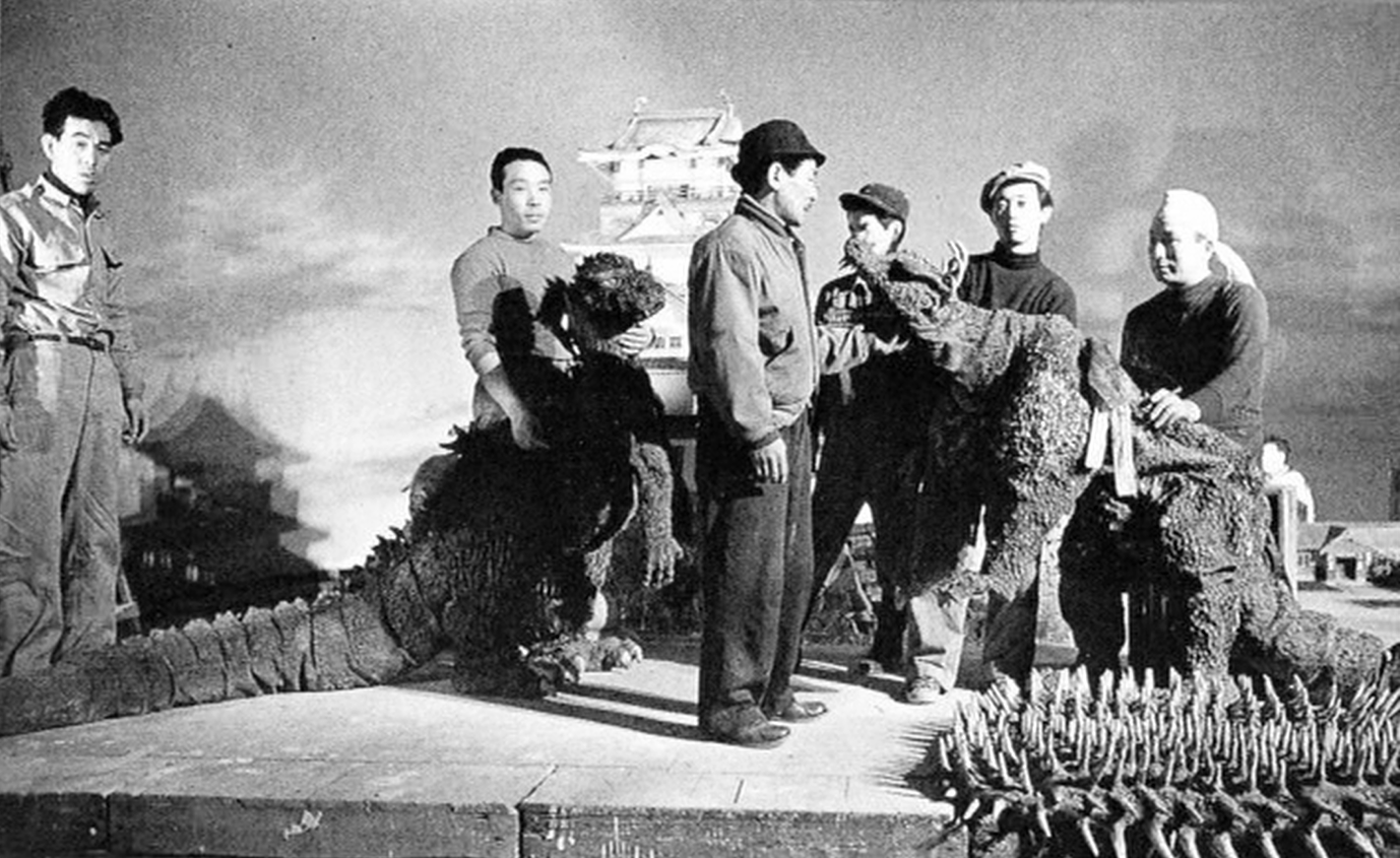 Behind the scenes photograph from the set of Godzilla Raids Again.